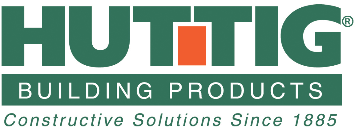 This logo is a registered trademark of Huttig Building Products, Inc. and was made available by Huttig for public use.